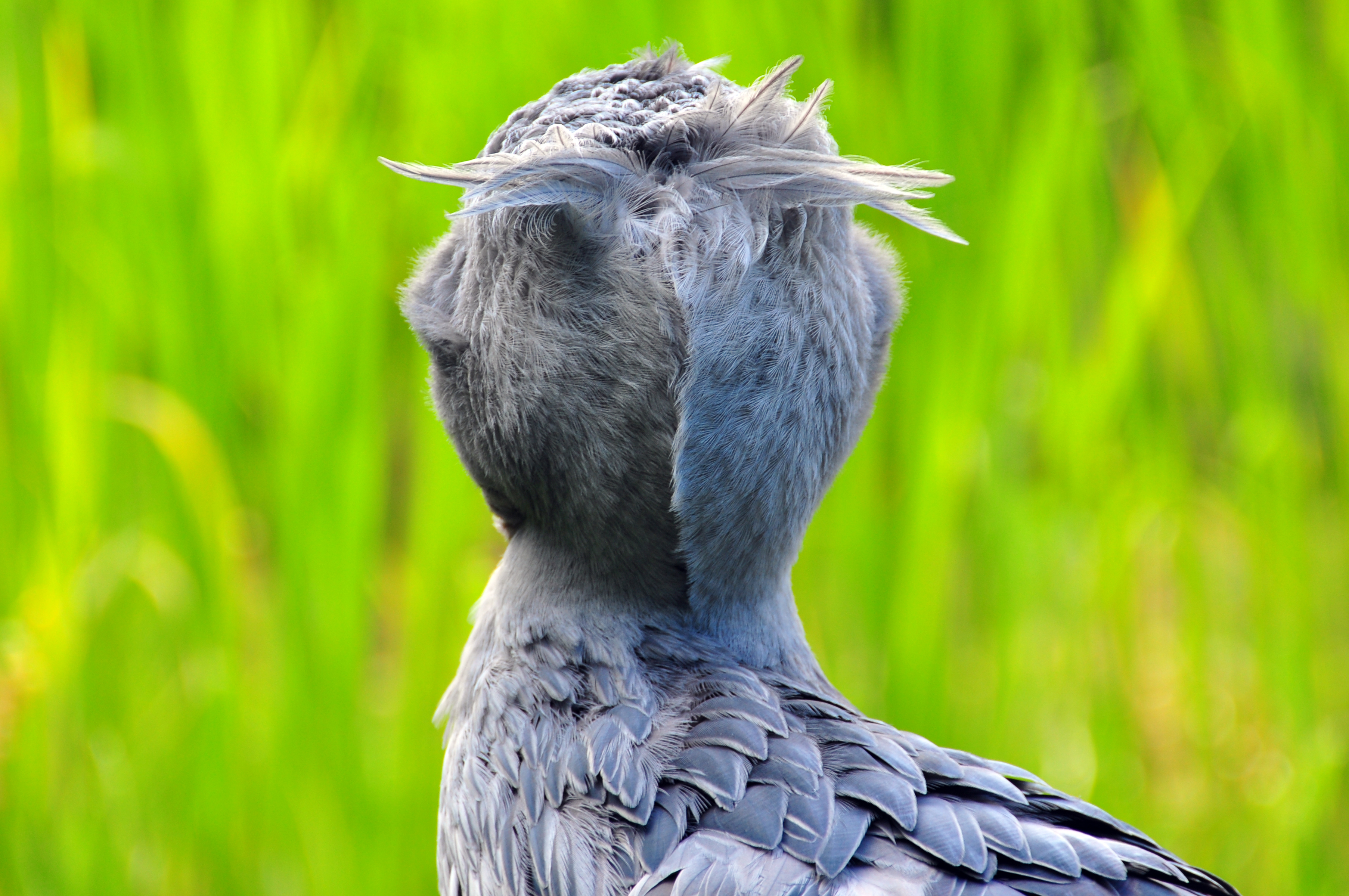 Back of the head of the Shoebill (Balaeniceps rex) at Weltvogelpark Walsrode (Walsrode Bird Park, Germany)